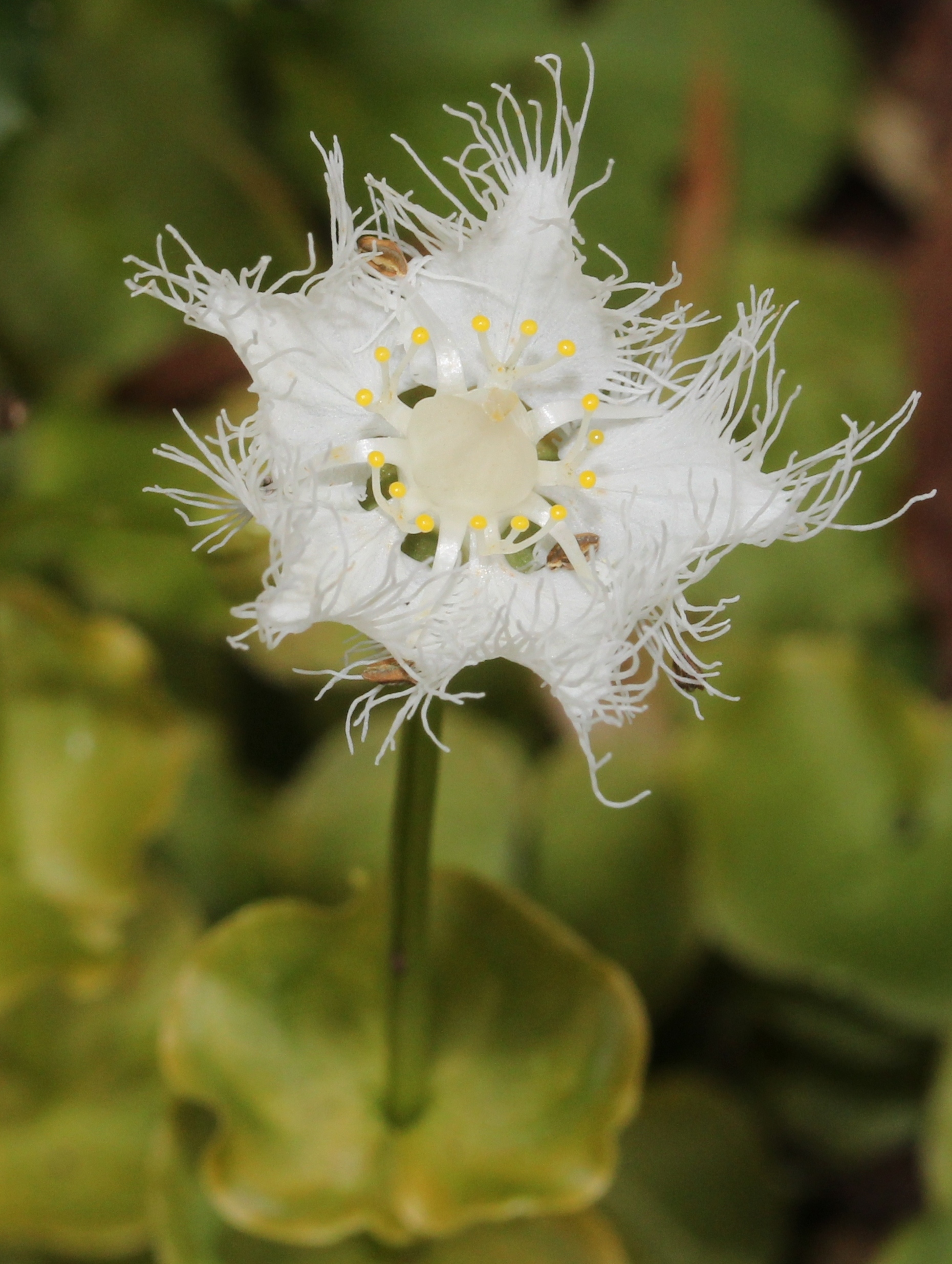 Parnassia foliosa var. nummularia, in Mount Mominuka, Hida, Gifu prefecture, Japan.